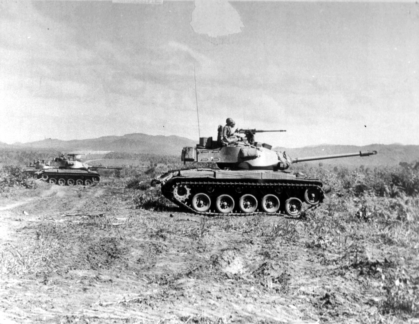 M41 IN SOUTH VIETNAMESE TRAINING OPERATION. Tank has 76-mm. gun, light armor, two machine guns, and crew of four.